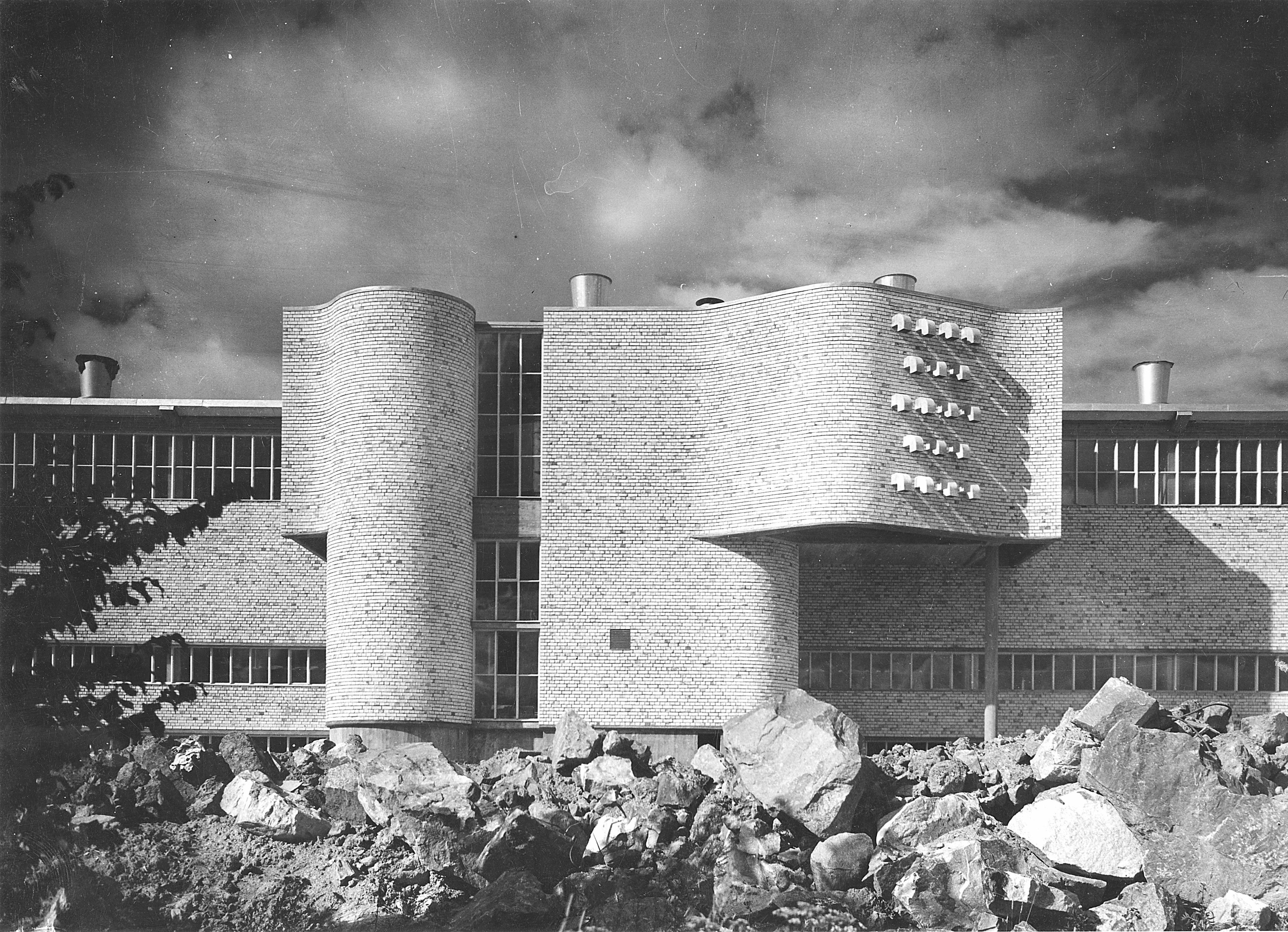 Motiv: Kartongfabrik Exteriör Avbildade orter: Avbildad, ort: Dalarna Historik: Annat: 1950 (Byggnadsår) Arkitekt: Erskine, Ralph